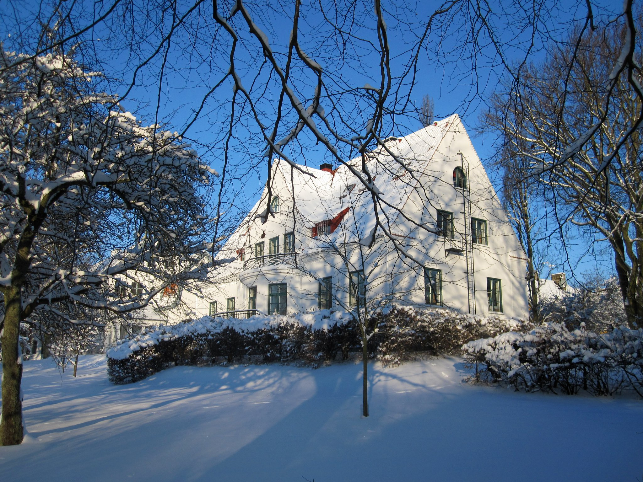 The house of the Center for Middle Eastern Studies at Lund University